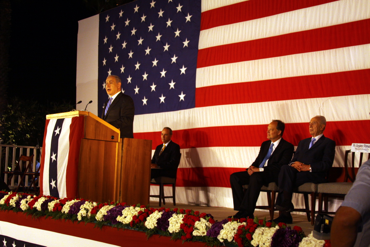 Independence Day reception at the Residence of the U.S. Ambassador to Israel, June 30, 2011. Credit: U.S. Embassy Tel Aviv